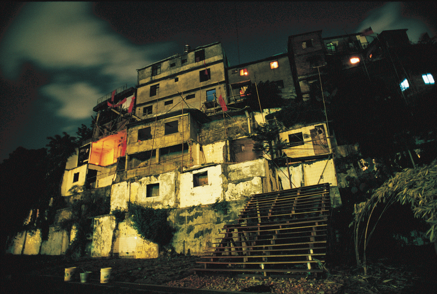 Casagrande Laboratory: Treasure Hill, Taipei Taiwan 2003. Other version: File:Treasure Hill 03 Taiwan.gif